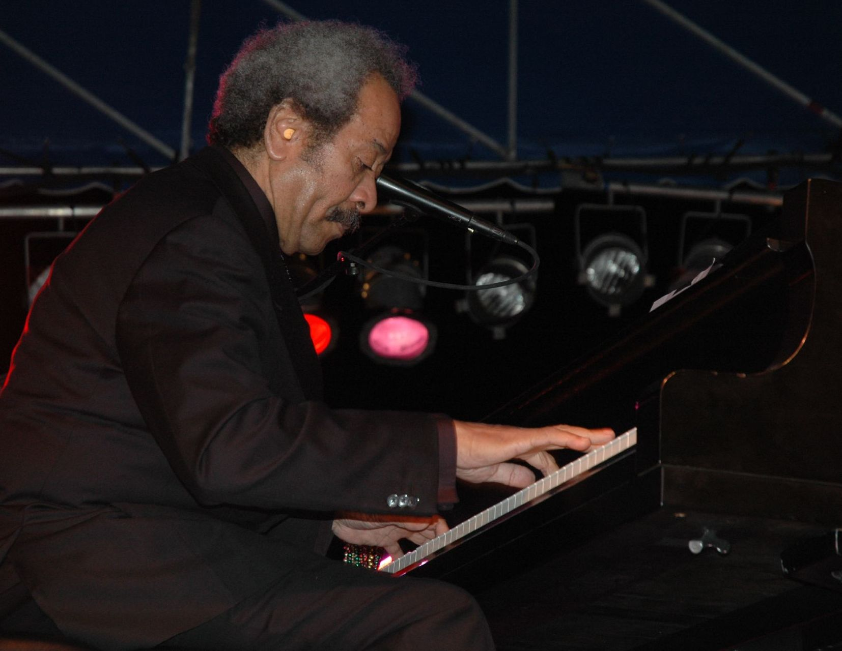 Allen Toussaint performing at Mardi Gras Festival in Hollywood, Florida.